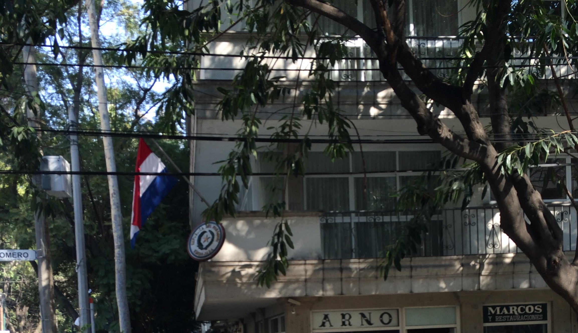 Embassy of Paraguay in Mexico City